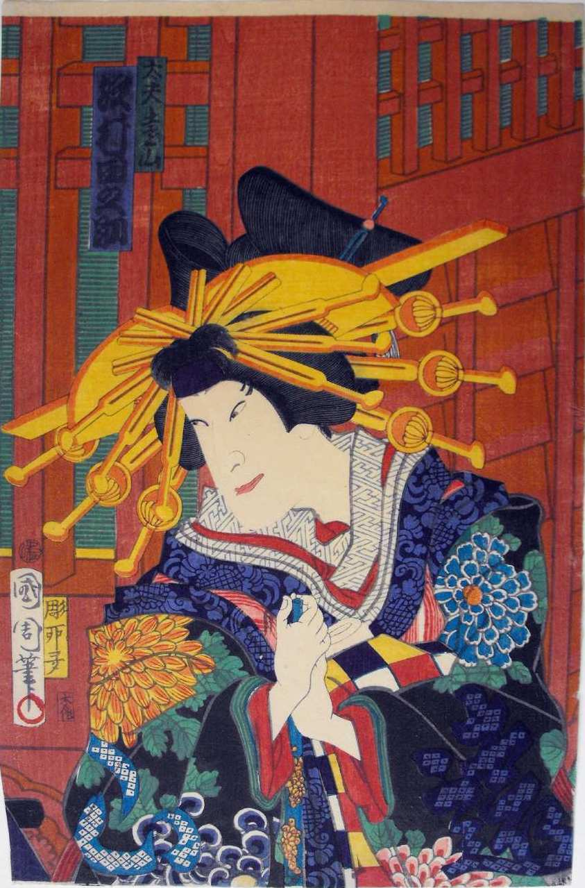 Depicted in a Japanese woodblock print by Kunichika, note the omnipresence of the Sawamura family insignia, or mon, 紋, in his hair combs (a circle with an inverted chrysanthemum), and the flowers on the kimono.